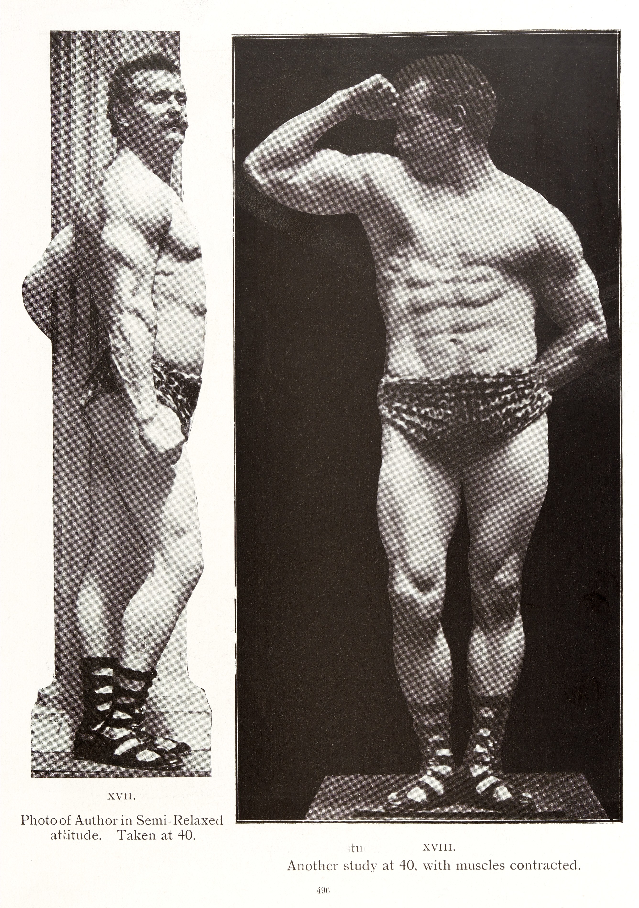 Eugen Sandow: Life of the Author as told in Photographs General Collections Keywords: Body; Development; Muscles; Physique; Health; Masculinity; Muscle; Exercise